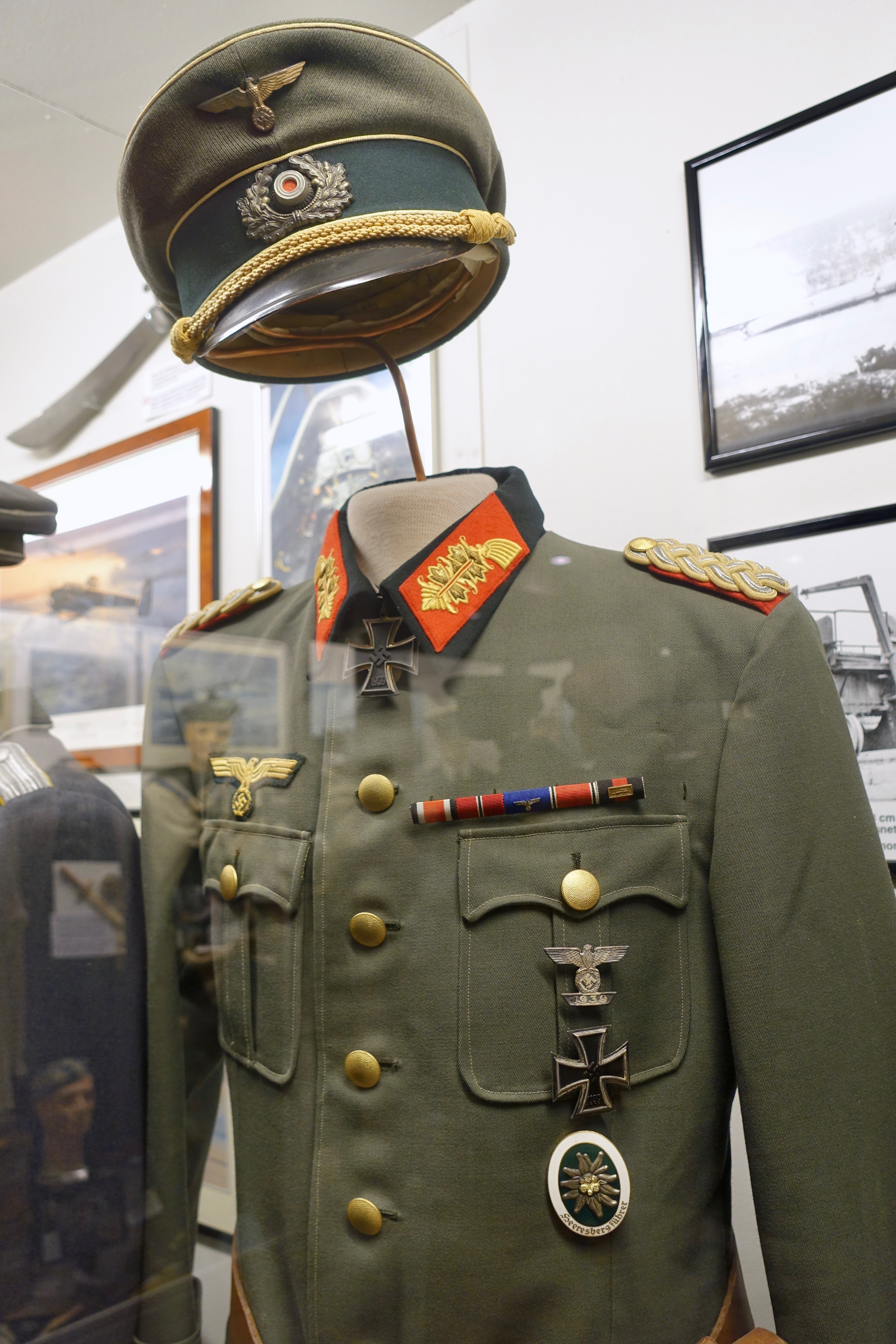 WW2 Wehrmacht Heer (German army ) general uniform of Hubert Lanz (1896 –1982), General der Gebirgstruppe. Heeresbergführer-Abzeichen der Gebirgstruppe der Wehrmacht (qualification badge/military decoration with edelweiss emblem of the German alpine or mountain troops) and Wiederholungspange zum Eisernes Kreuz 1st class (clasp to the Iron Cross) on tunic. The tunic is incorrectly decorated, probably by an ignorant collector. The ribbon bar for example has the ribbon for a ww2 Iron Cross second class and there is a WW2 iron Cross 1st class present. However above these a repeat clasp (1st class) to the iron cross was placed, meaning that the recipient had already obtained an Iron cross 2nd and 1st class in the first world war. Also peaked visor cap, pistol holster, red, double-wide lampasses (stripes) on trousers, etc.Photo taken on May 8th, 2019 at Lofoten War Memorial Museum ("Lofoten Krigsminnemuseum") in Svolvær, Norway. The museum exhibits uniforms, smaller items, etc. from World War II and the German occupation of Norway 1940–1945.